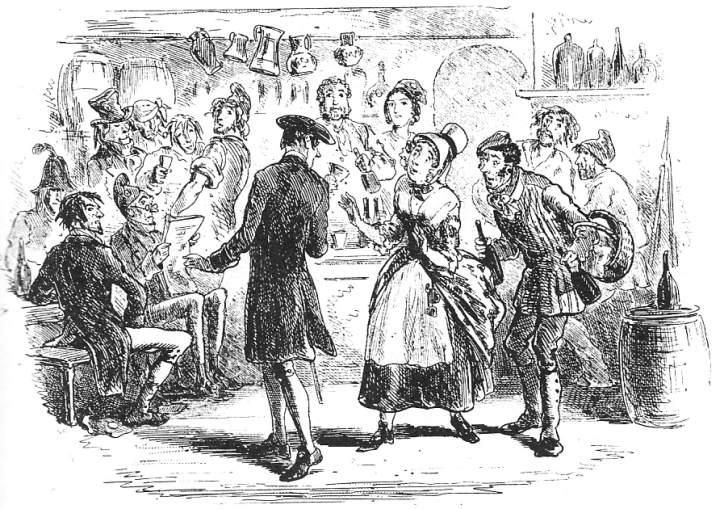 A Tale of Two Cities, Miss Pross and Cruncher simultaneously recognise Solomon, alias Barsad, by Phiz.